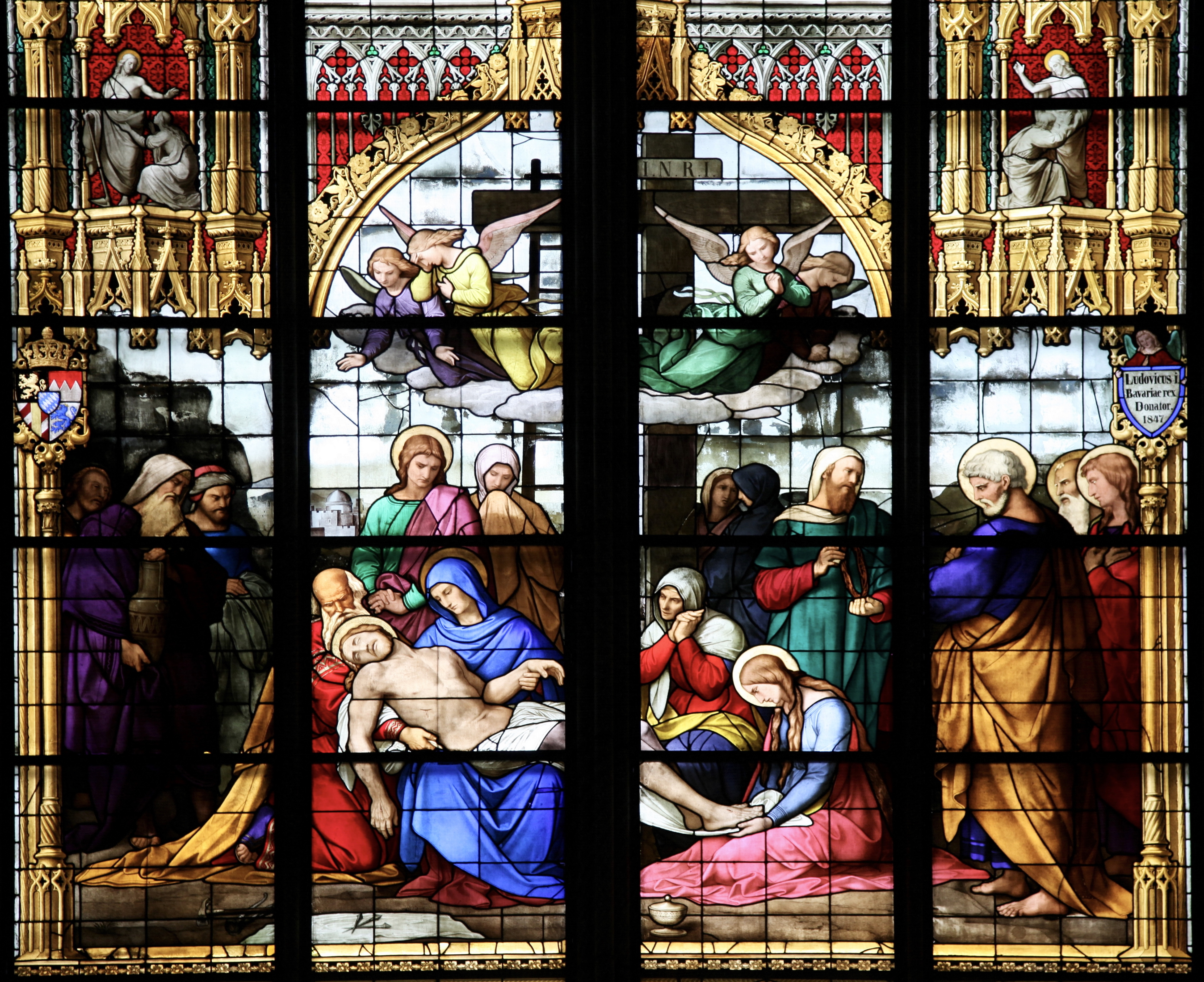 Stained glass window of the Cologne Cathedral